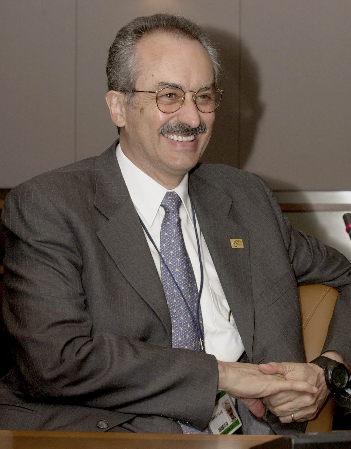 Francisco Gil Diaz, Mexican Secretary of Finance in the cabinet of president Vicente Fox (2000 – 2006).